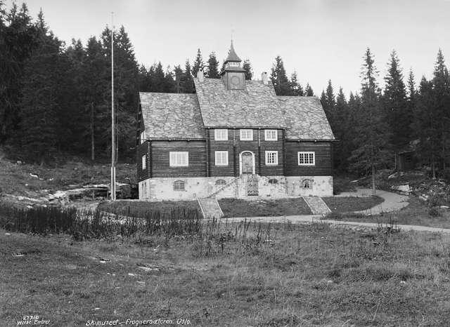 The original Ski Museum in Oslo, Norway. The current building is located in the Holmenkollen neighbourhood.